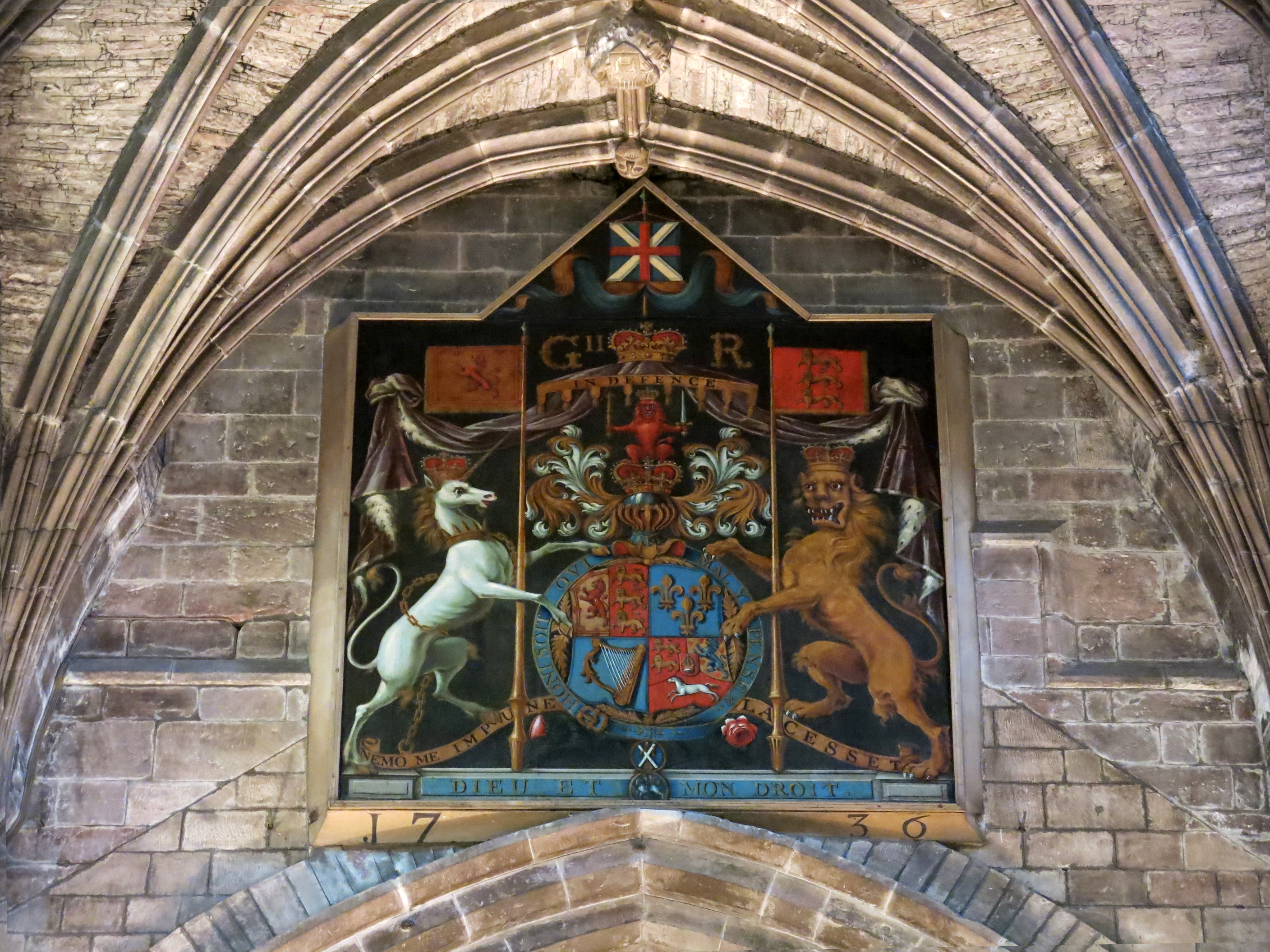 Edinburgh, St Giles' Cathedral.